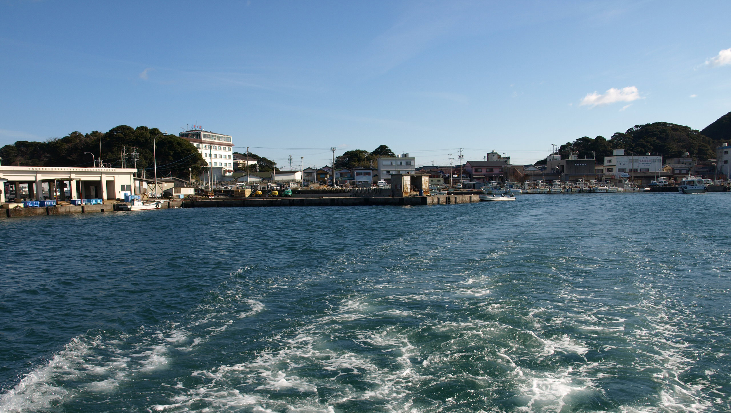 Tōshi-jima island in Toba, Mie, Japan.